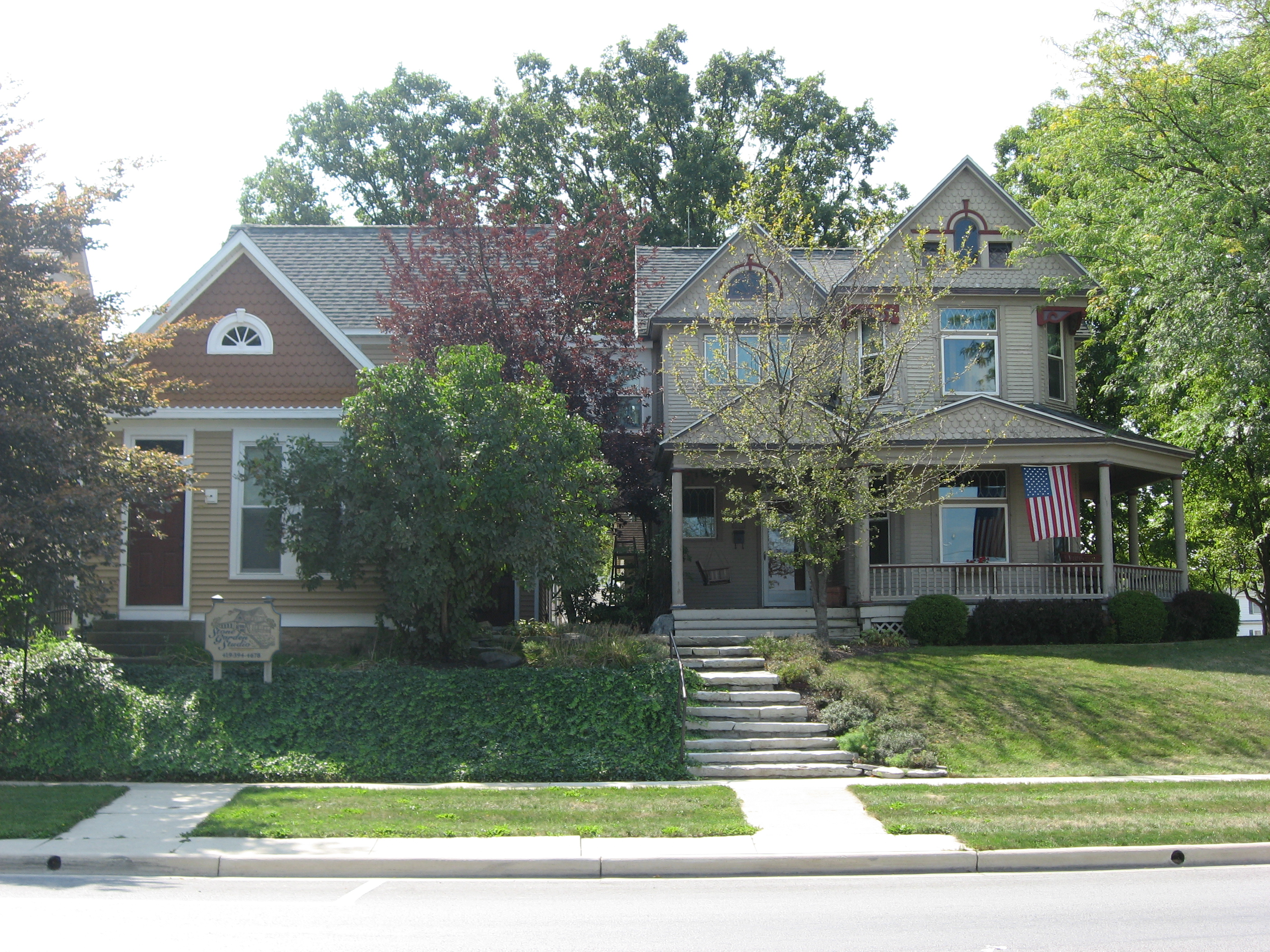 Front of the Dr. Issac Elmer Williams House and Office, located at 407/411 Main Street (State Routes 29/116) in northwestern St. Marys, Ohio, United States. Built in 1903, the house and office are listed on the National Register of Historic Places.